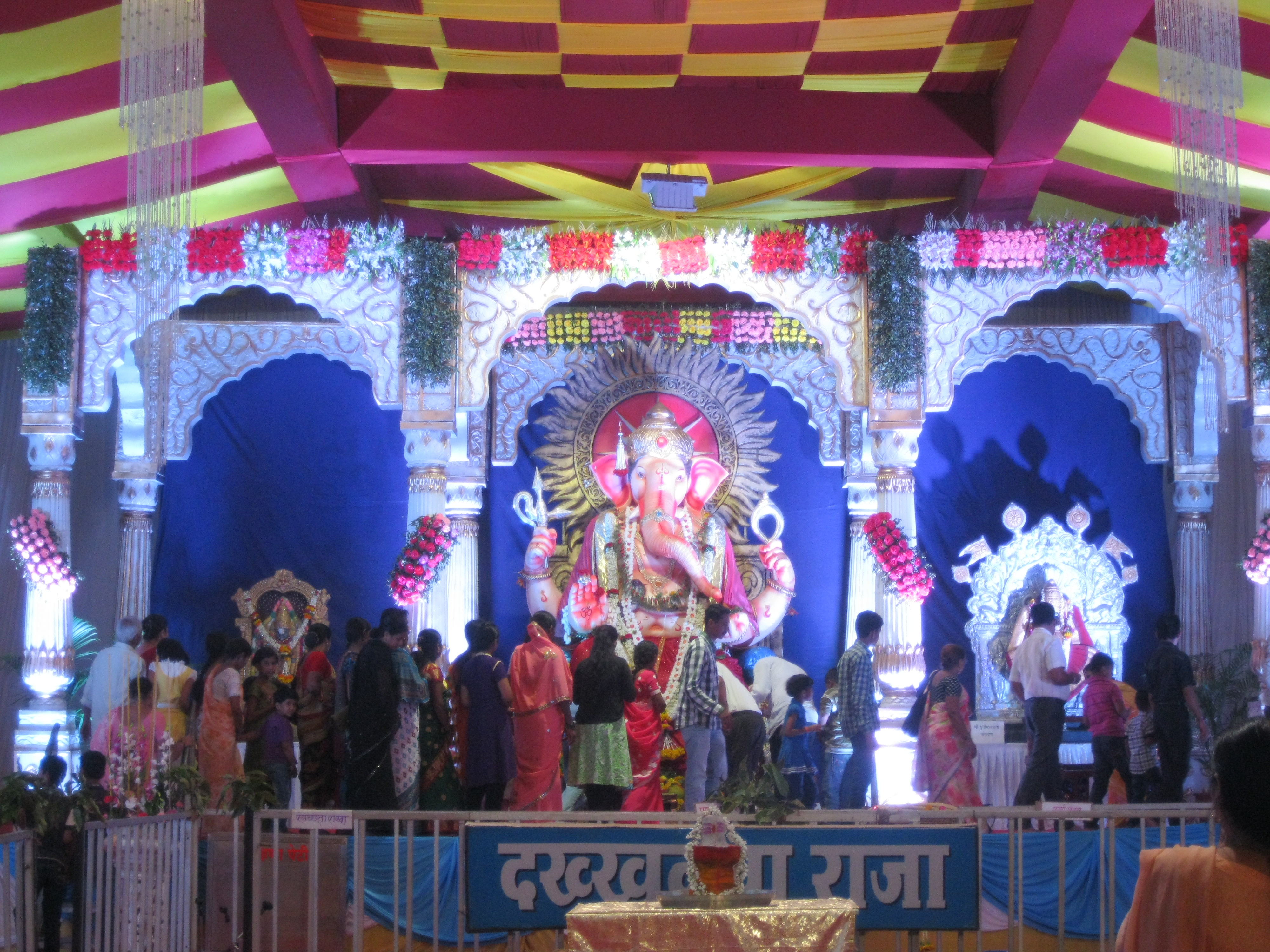 Ganeshotsav 2015, Dakkhancha Raja. Near Shivaji Stadium, Kolhapur